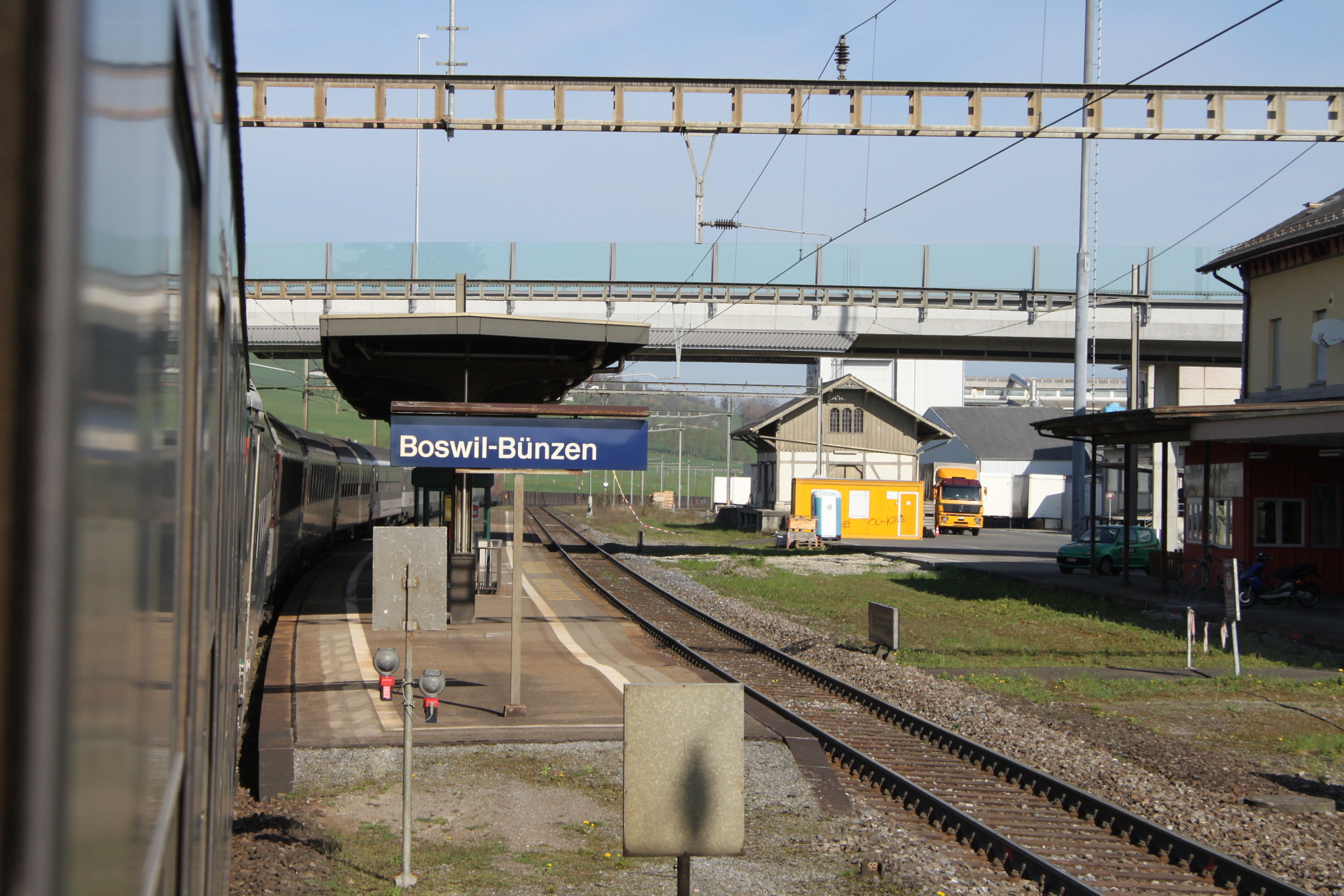 Boswil-Bünzen train station.